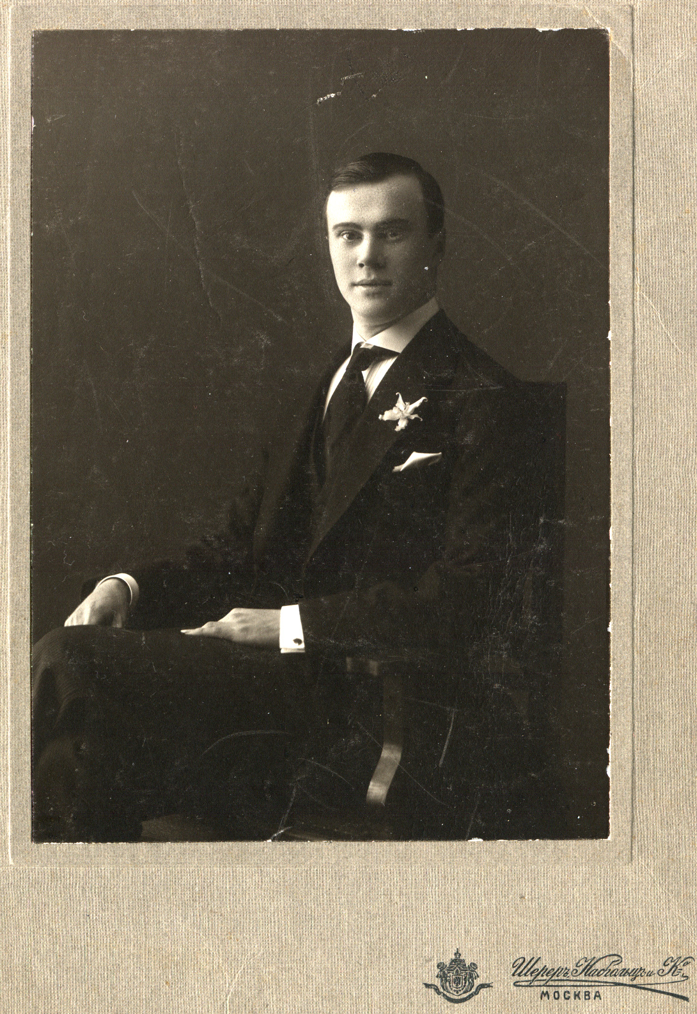 Young portrait photograph of Kozo-Polyansky